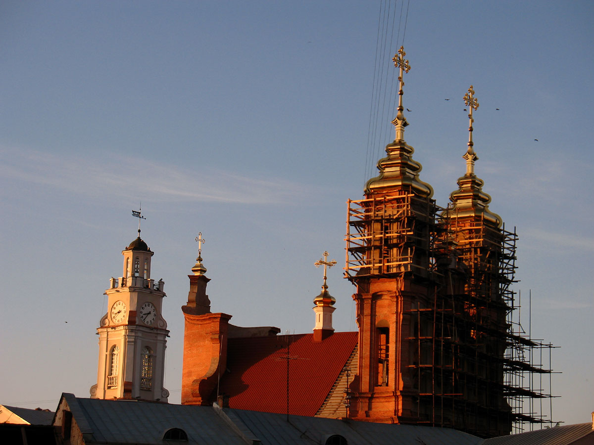 City Hall & Church of Resurrection in Viciebsk